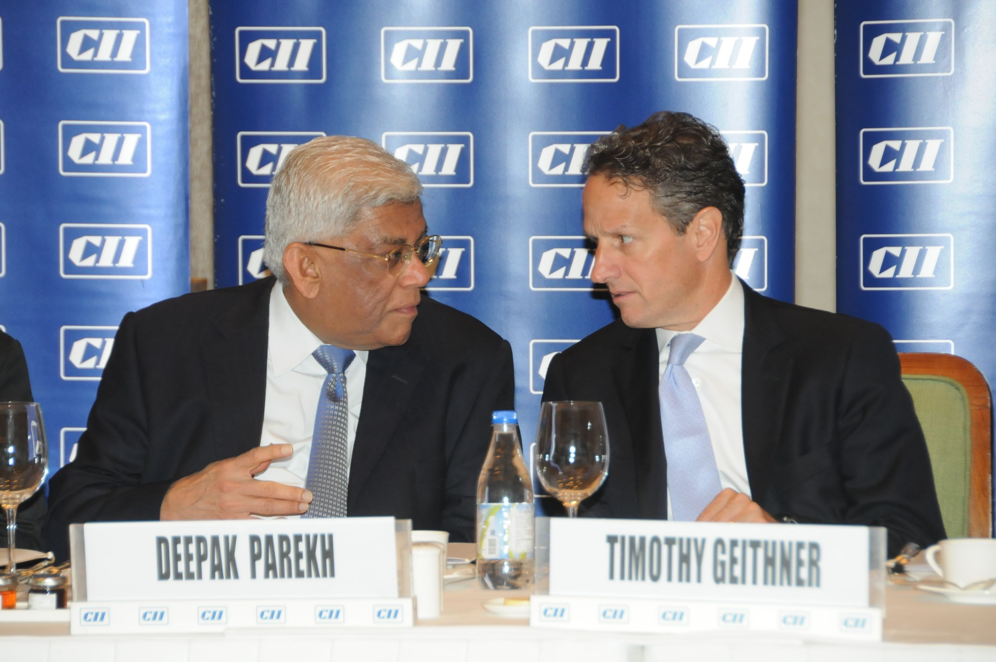 Secretary Geithner met with leaders of India’s major multinational corporations in a meeting organized by the Confederation of Indian Industry. Pictured here with Deepak Parekh, Chairman of the Housing Development Finance Corporation